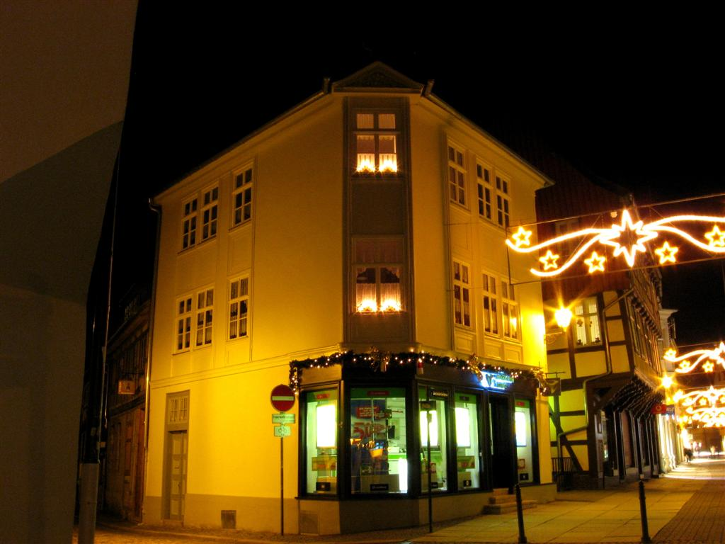 Building in Quedlinburg / Germany